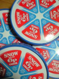 6P(Portion) Cheese made by Snow Brand Milk Products(Yukijirushi Nyuugyou) in Japan.